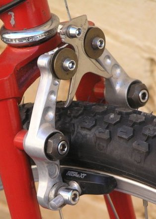 Example of a front Roller Cam bicycle brake, cropped from original.